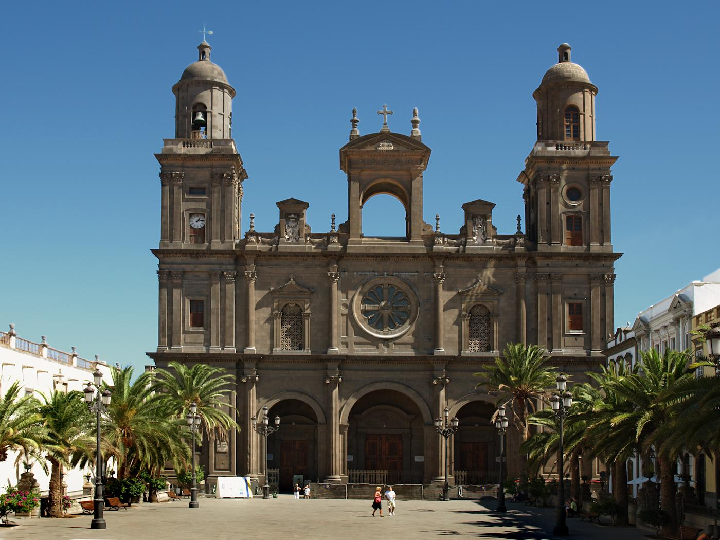 Las Palmas de Gran Canaria , Church Santa Ana, photo 2009